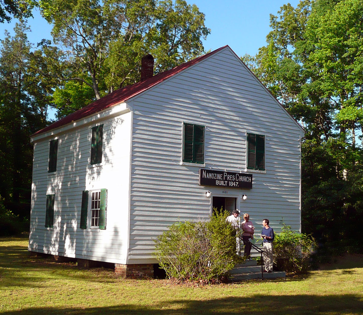 Photograph of Namozine Presbyterian Church, site of the Battle of Namozine Church during the American Civil War.